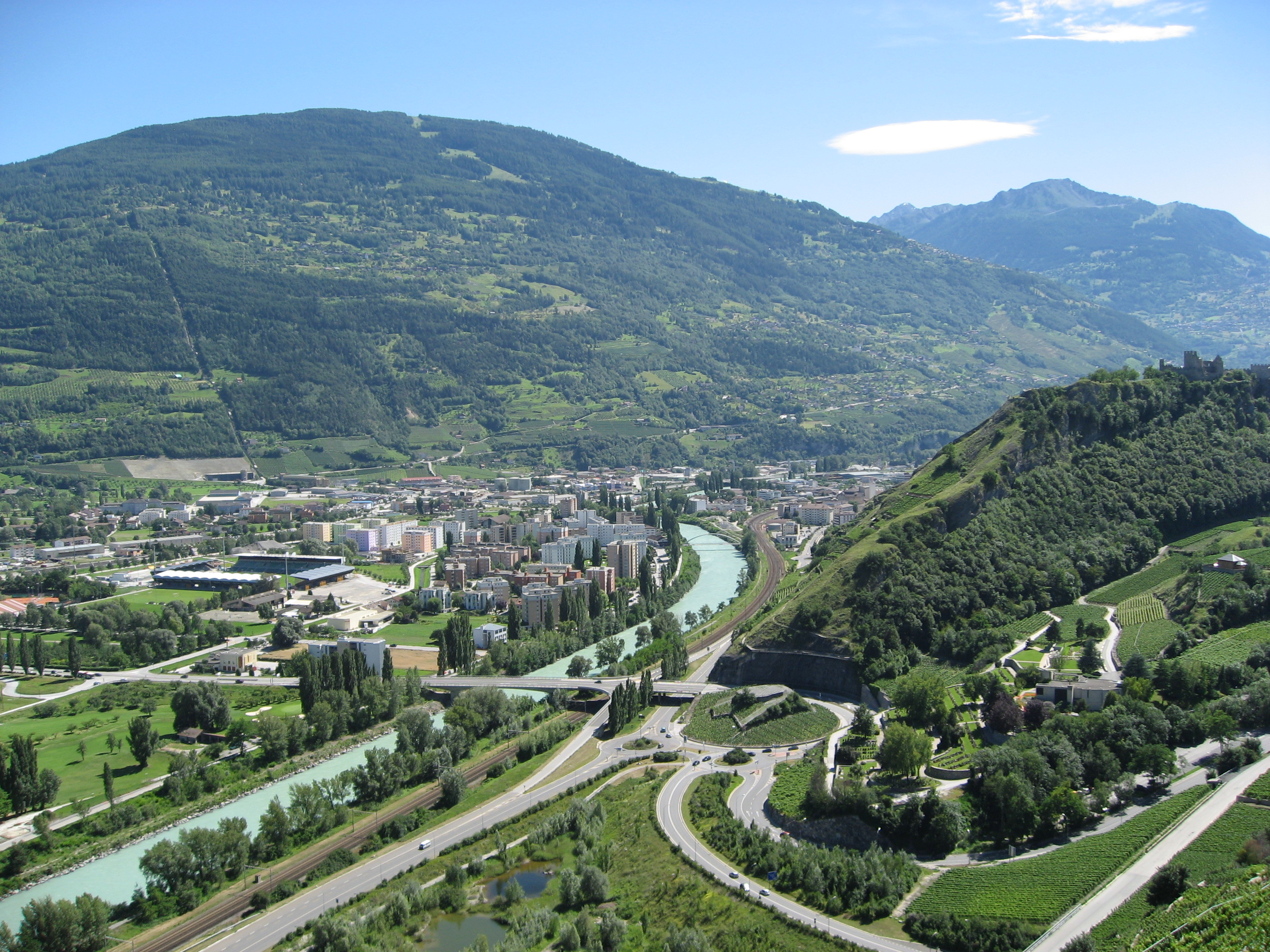 View of Sion from Bisse de Clavau